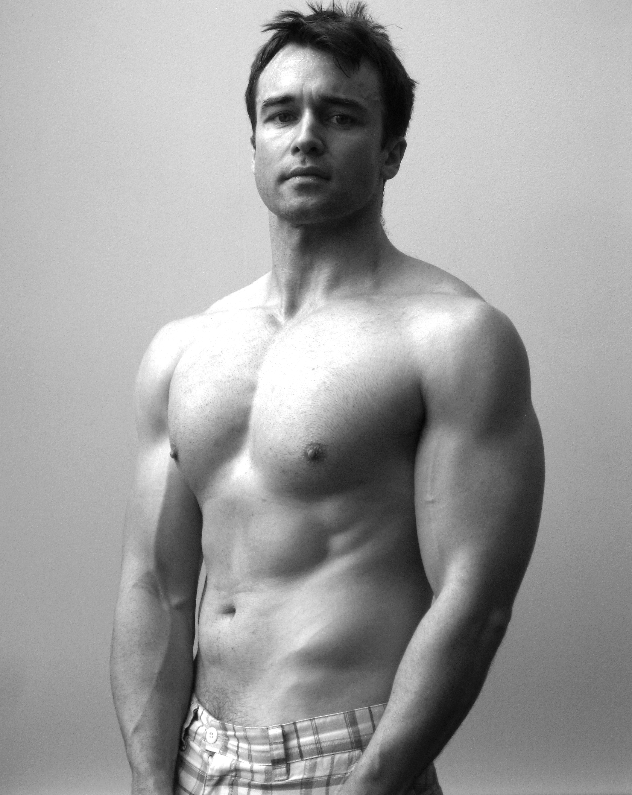 Dwayne Cameron 16th Sept 2012